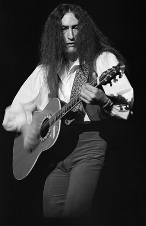 Ken Hensley, Uriah Heep, Chateau Neuf, Oslo, Norway